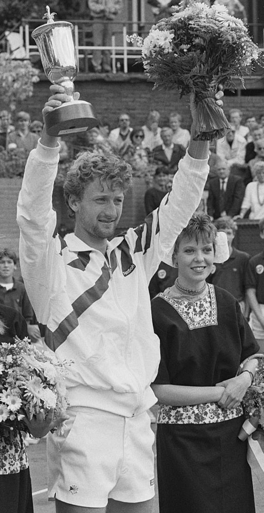 Czechoslovakian tennis player Miloslav Mecir at the victory ceremony after winning the 1987 Dutch Open.